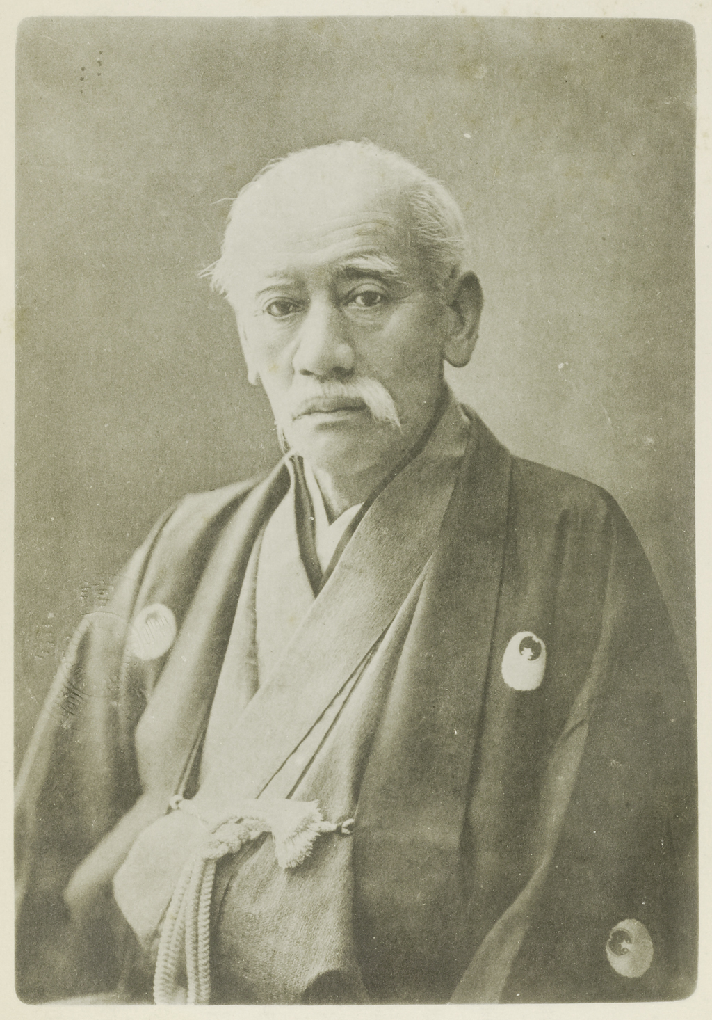 Portrait of Kawasaki Shozo (川崎正蔵, 1837 – 1912)